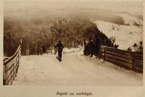 Zygmunt Rajski during ski jumping competition of Championships of Krynica in Poland